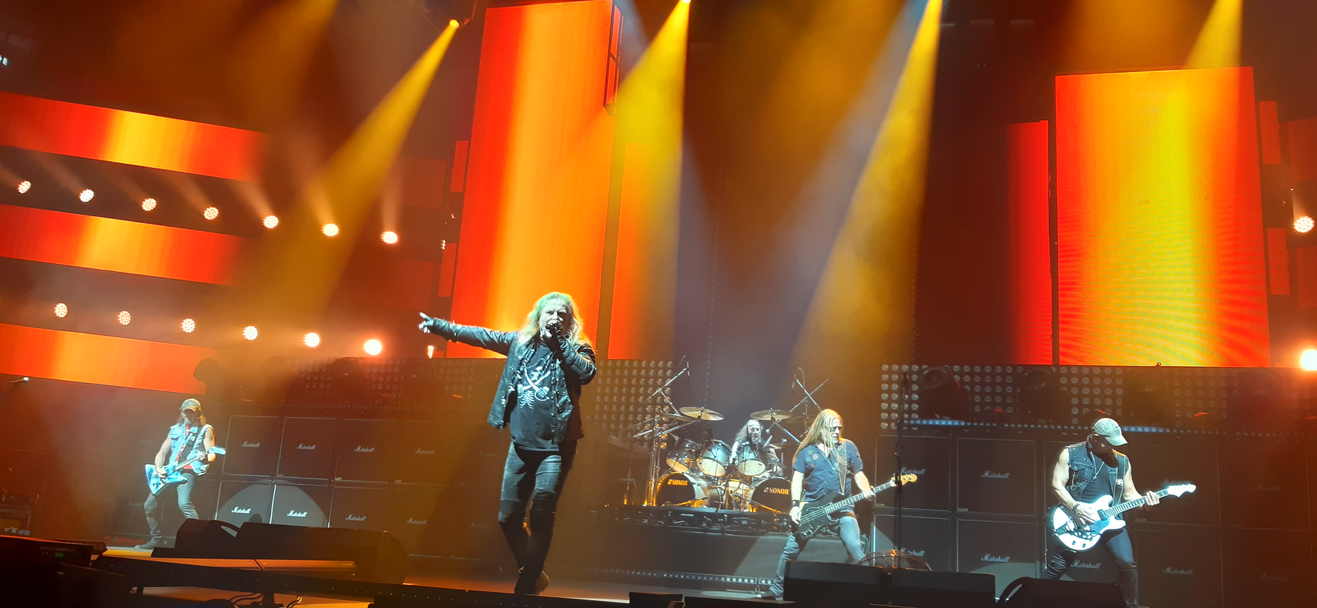 Czech rock band Kabát during a charity concert ina sold out arena O2 Universum.